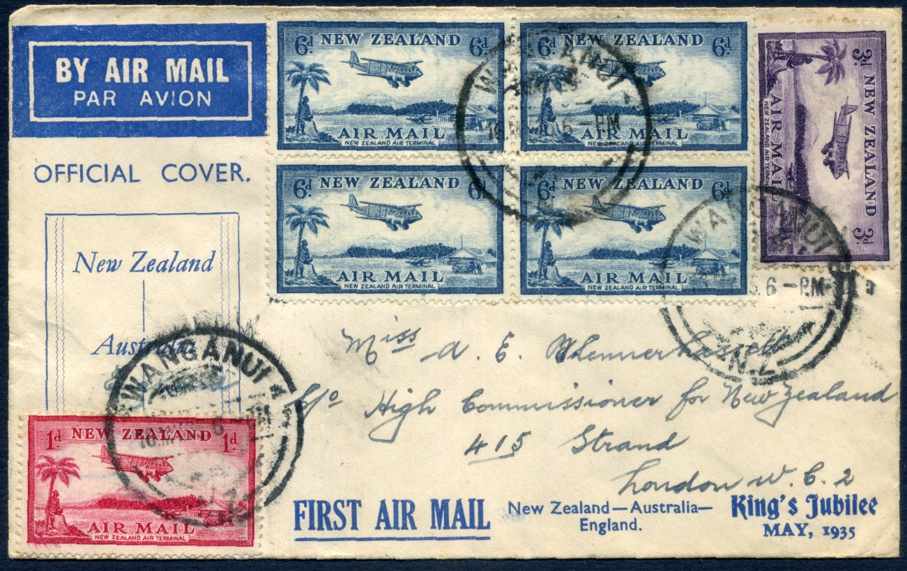 1935 First flight cover from New Zealand via Australia to England rated 2 shilling and 4 pence from Wanganui to London with 1935 airmail stamps including a 6d blue block of 4